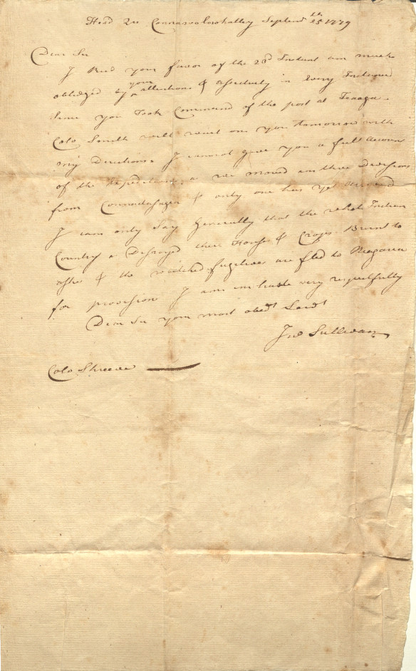 Correspondence from Major General John Sullivan to Shreve on September 25, 1779. Sent from Headquarters in Connawolowhalley.